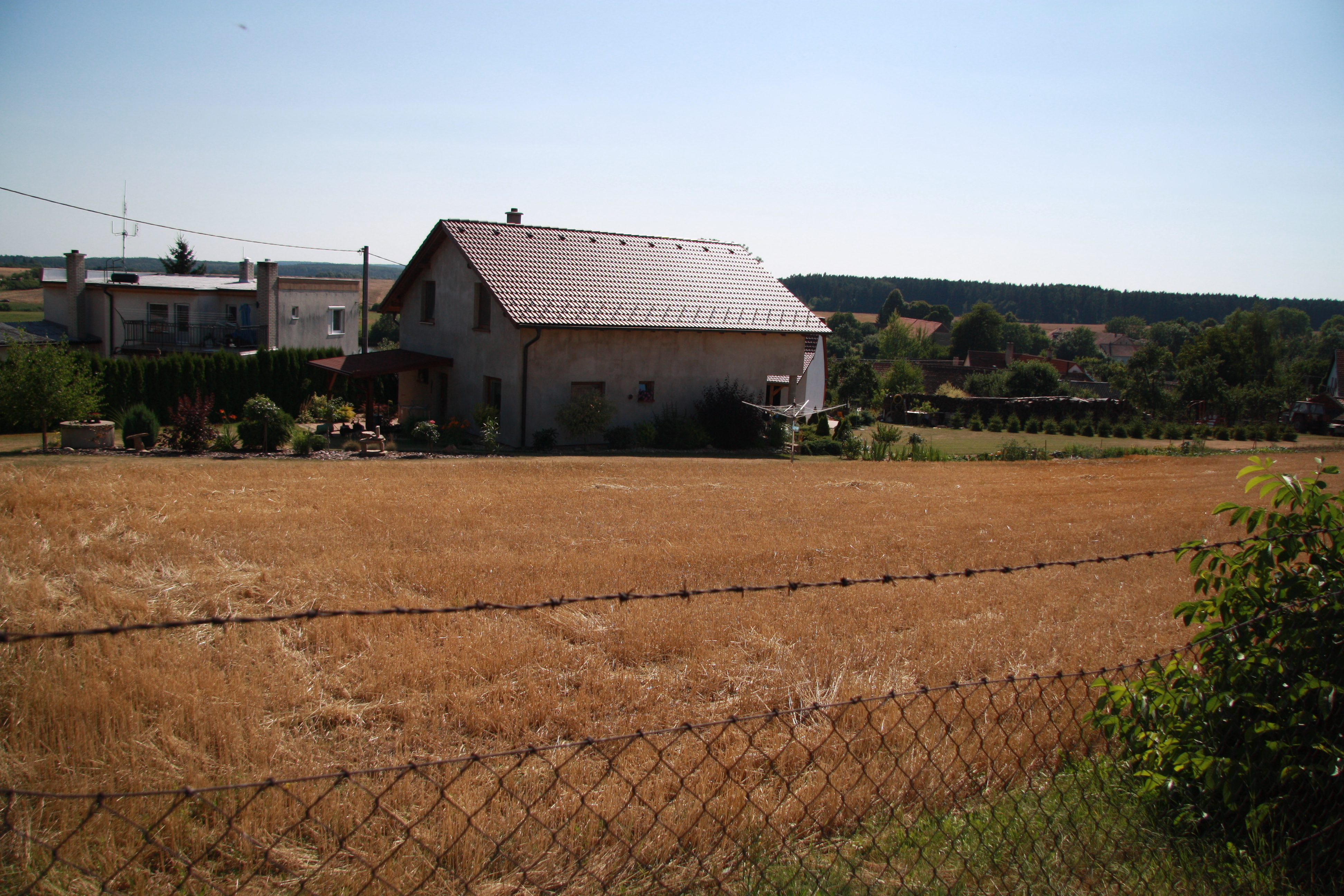 View of Jackov, Moravské Budějovice, Třebíč District.